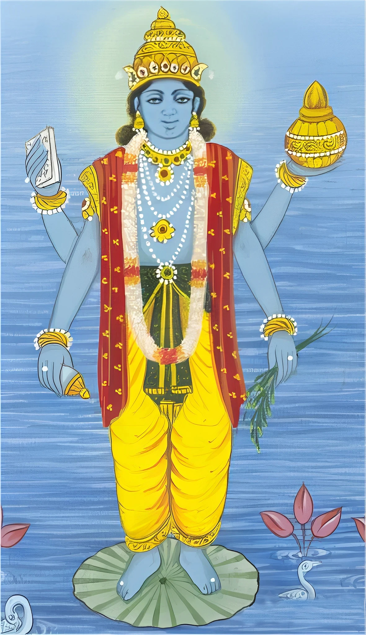 A detail from a miniature painting in the Rajastani style, made by the artist LaLa in Udipur, ordered pecially by user:F16. Painted in September 2004. shows the Hindu god Dhanvantari.